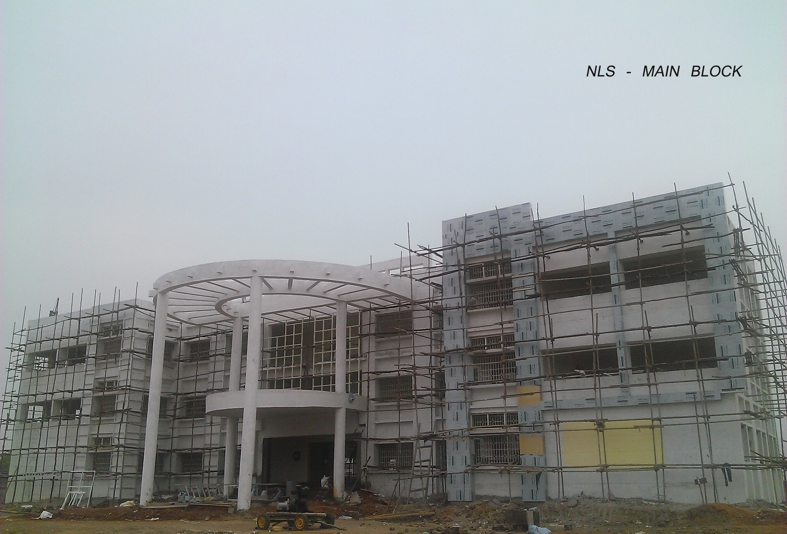 This image shows the building of the NLS trichy .